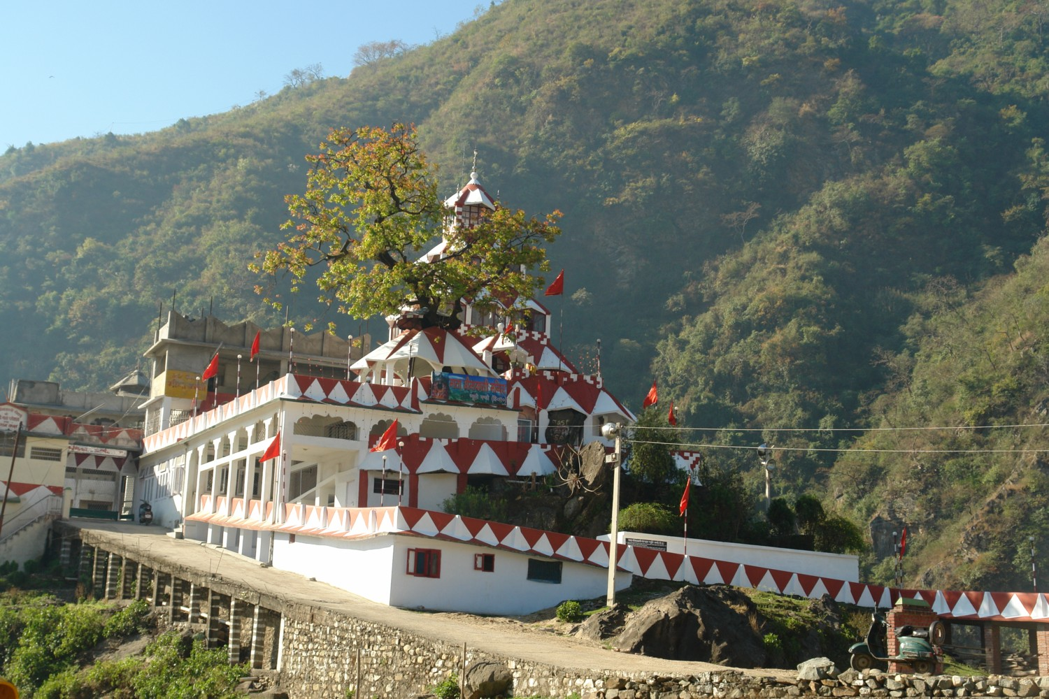 Bhima Kali Temple, Mandi